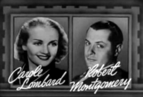 Cropped screenshot of Carole Lombard and Robert Montgomery from the trailer for the film Mr. & Mrs. Smith